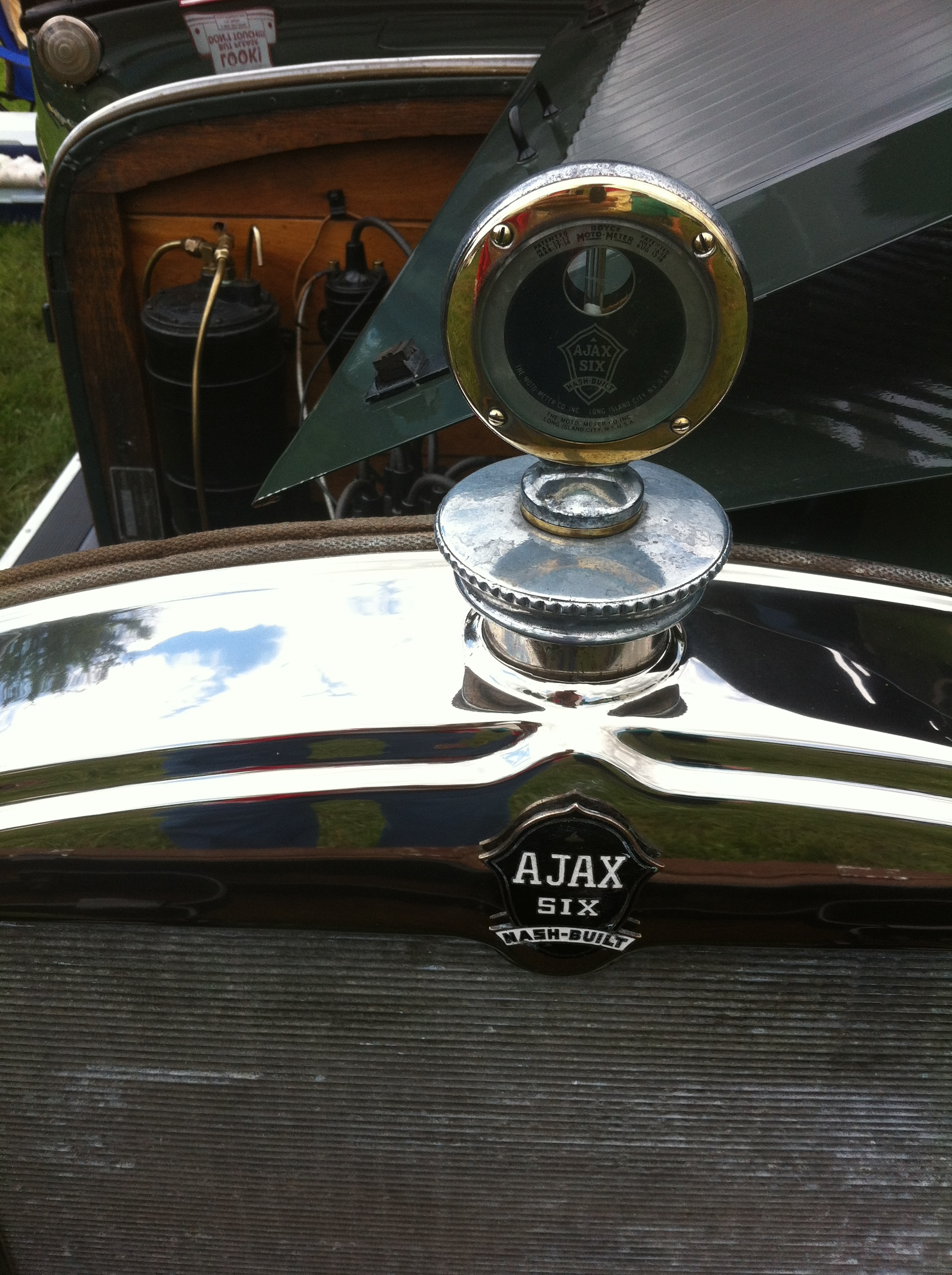 Temperature gauge and nameplate on the radiator of a 1926 Ajax, a 4-door sedan built by Nash. Picture taken at the 2014 Gettysburg AACA meet held near York Springs, Pennsylvania.